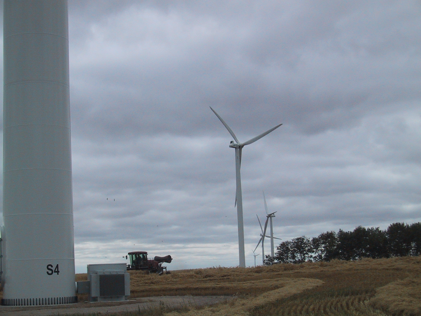 Wind turbines near St. Leon, Manitoba, August 2007